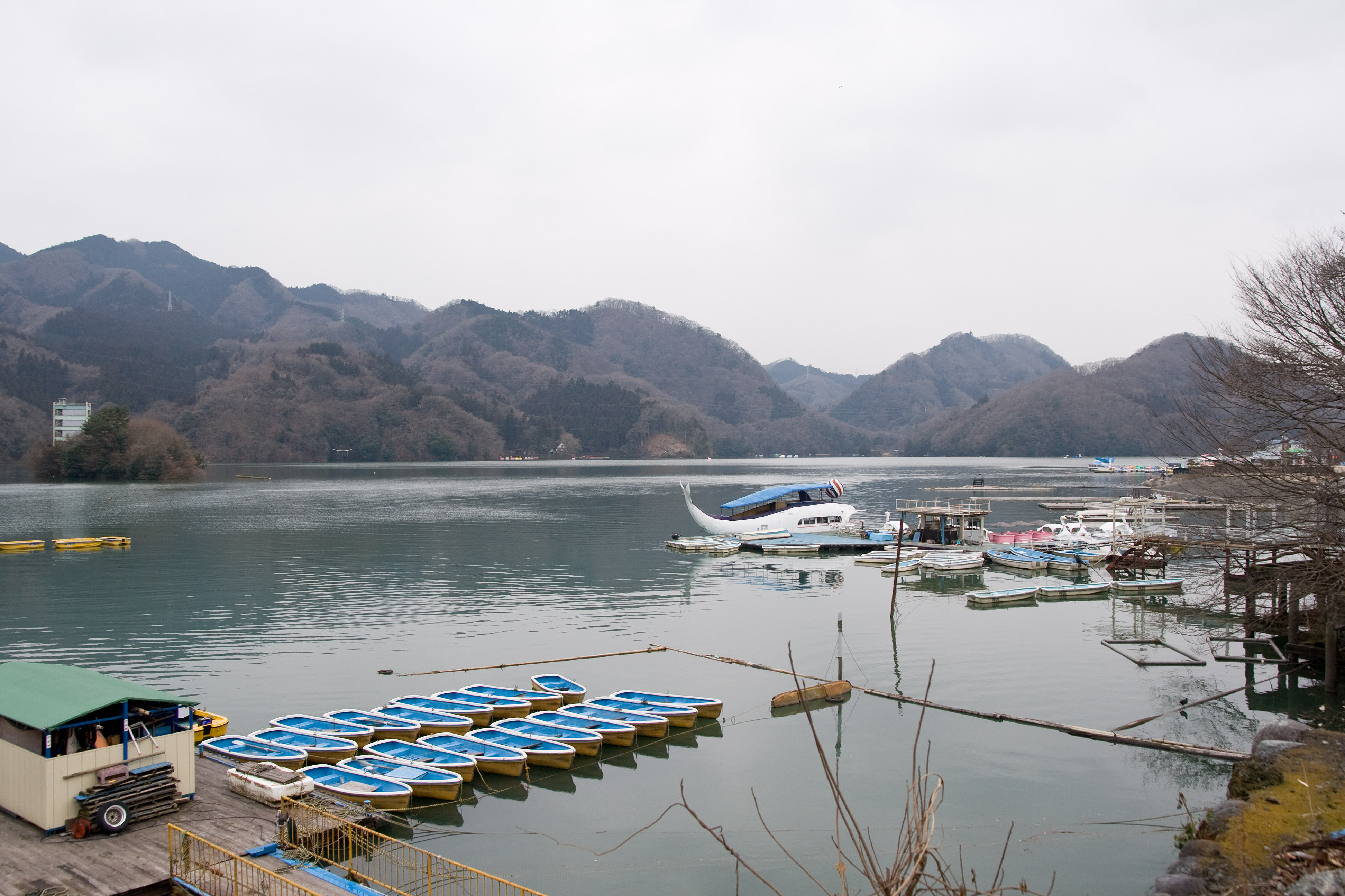 Lake Sagami, Sagamihara, Kanagawa Pref., Japan.